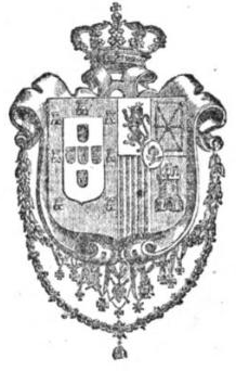 proposal for Iberian federal coat of arms (Spanish coat impaled with Portuguese), 1853. For other proposals, see File:Propuesta de escudo de Hispania.png and File:Propuesta de escudo de Hispania.svg